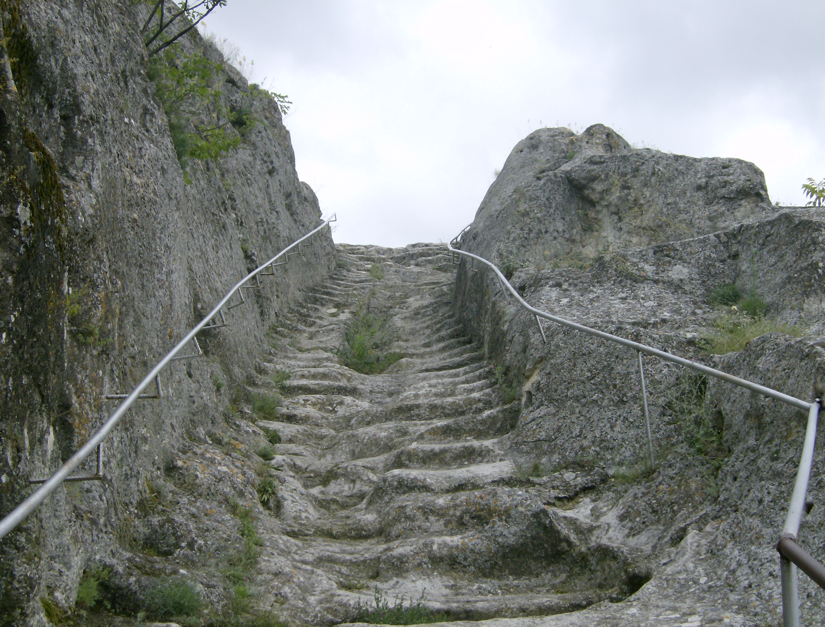 Ovech Fortress